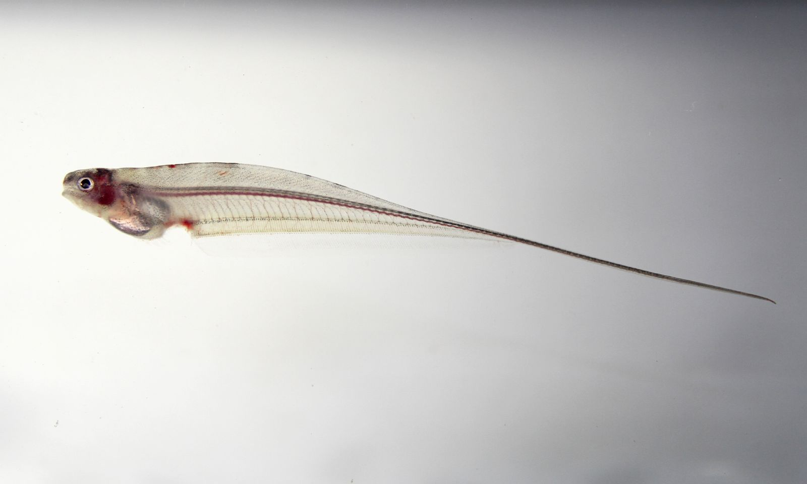 Species of Sternopygidae